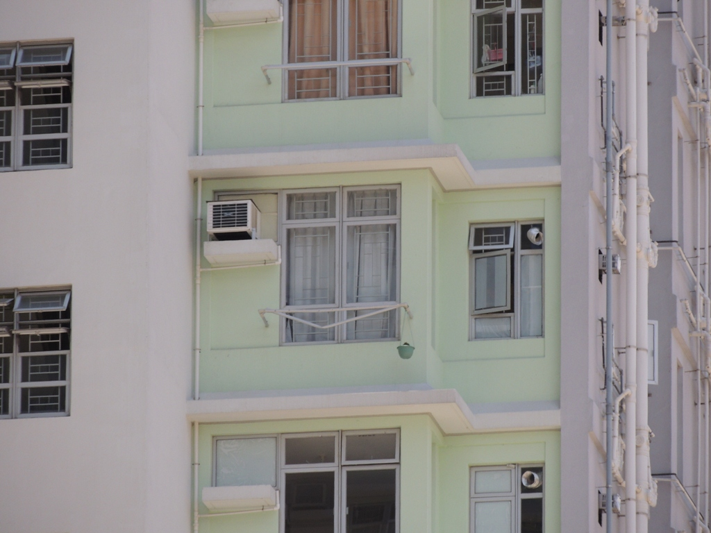 RM 1006, Lok Ching House